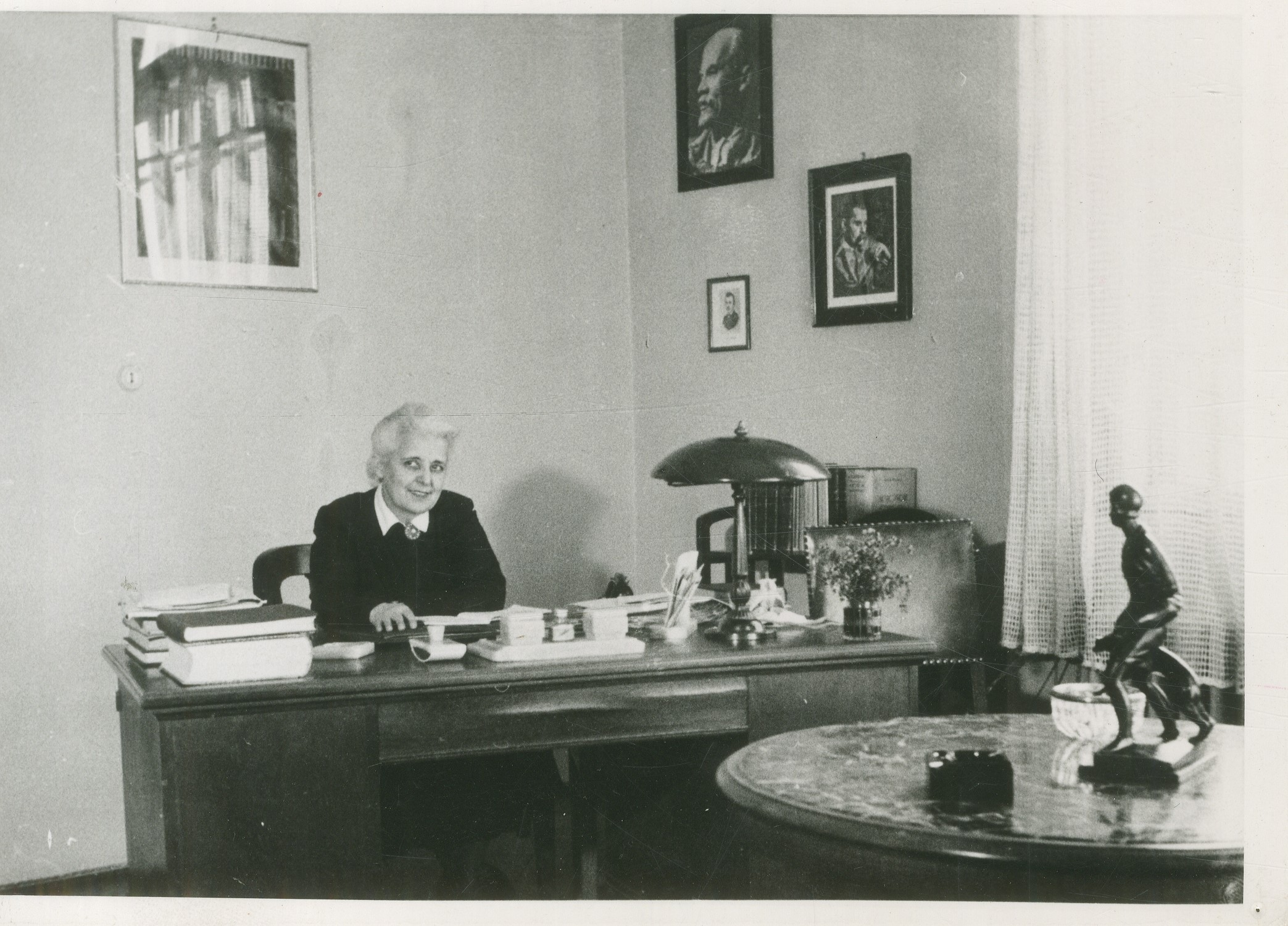 Milica Prodanović at the University library, Belgrade, Serbia. Srpski (latinica): Milica Prodanović u Univerzitetskoj biblioteci, Beograd, Srbija.